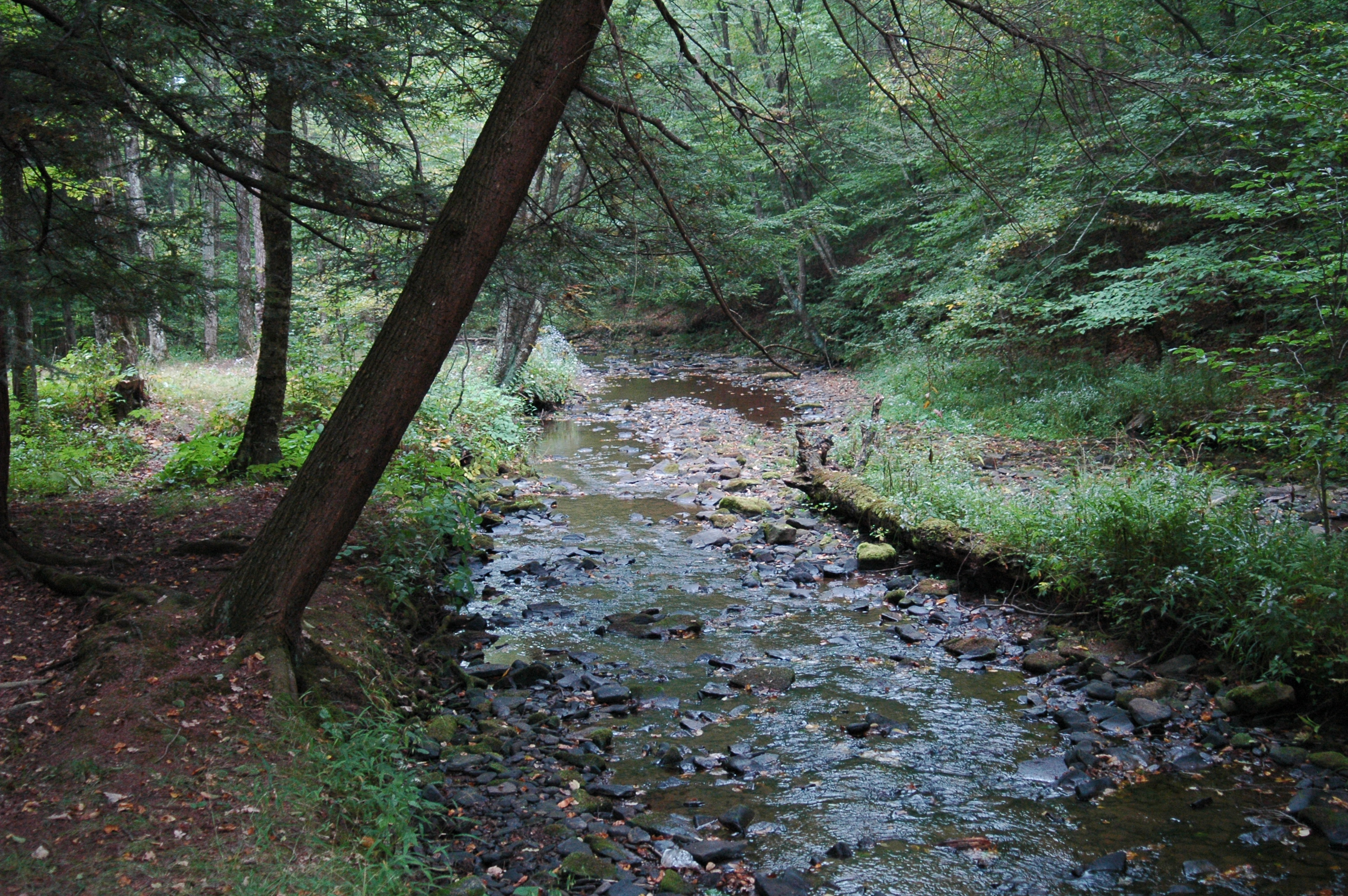 Prouty Run